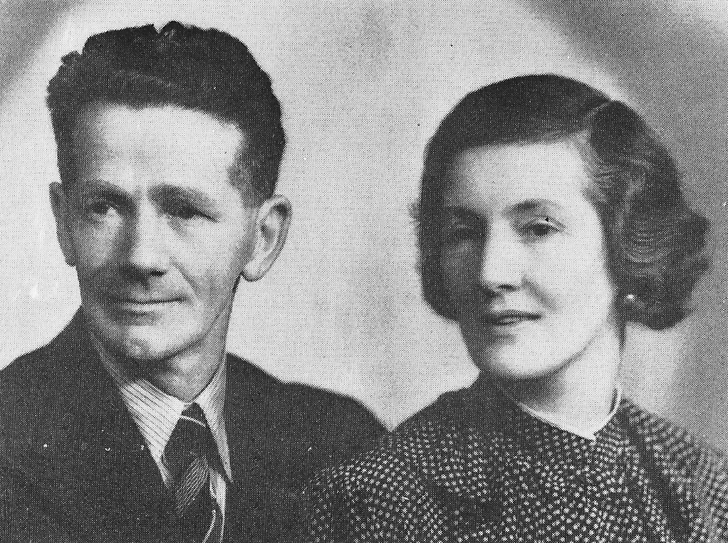 Jock and Agnes Smith, the parents of the future Rhodesian Prime Minister Ian Smith, in 1935